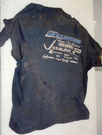 Shirt worn by an unidentified homicide victim found in Massachusetts in 2014.